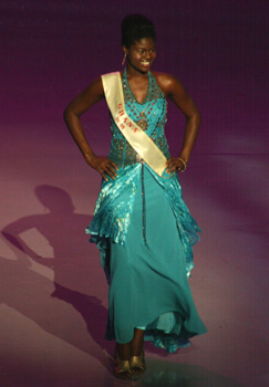 Miss Ghana 2007 - Irene Dwomoh in Miss World 2007, Sanya, China